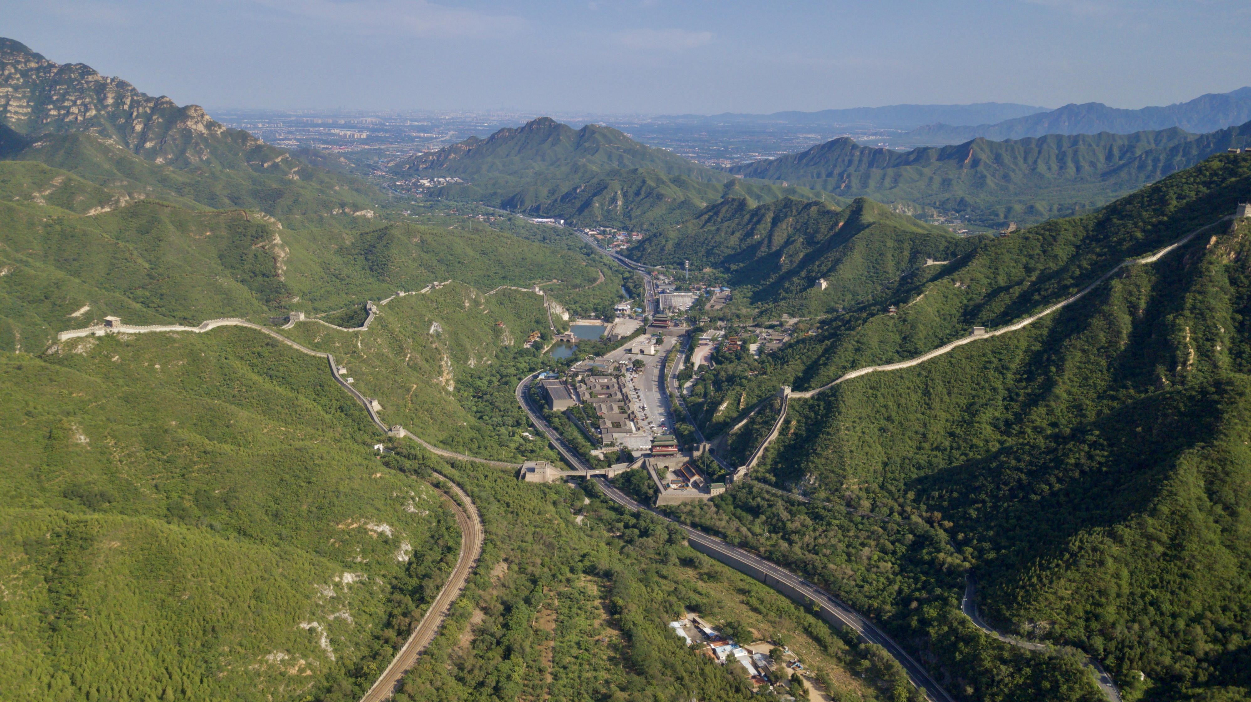 Juyong Pass panorama from the north. The Great Wall passes through. Juyong Pass is an important mountain pass located in the north of Beijing. The Beijing-Zhangjiakou Railway(1909) and G6 Expressway, S216 province way pass through.